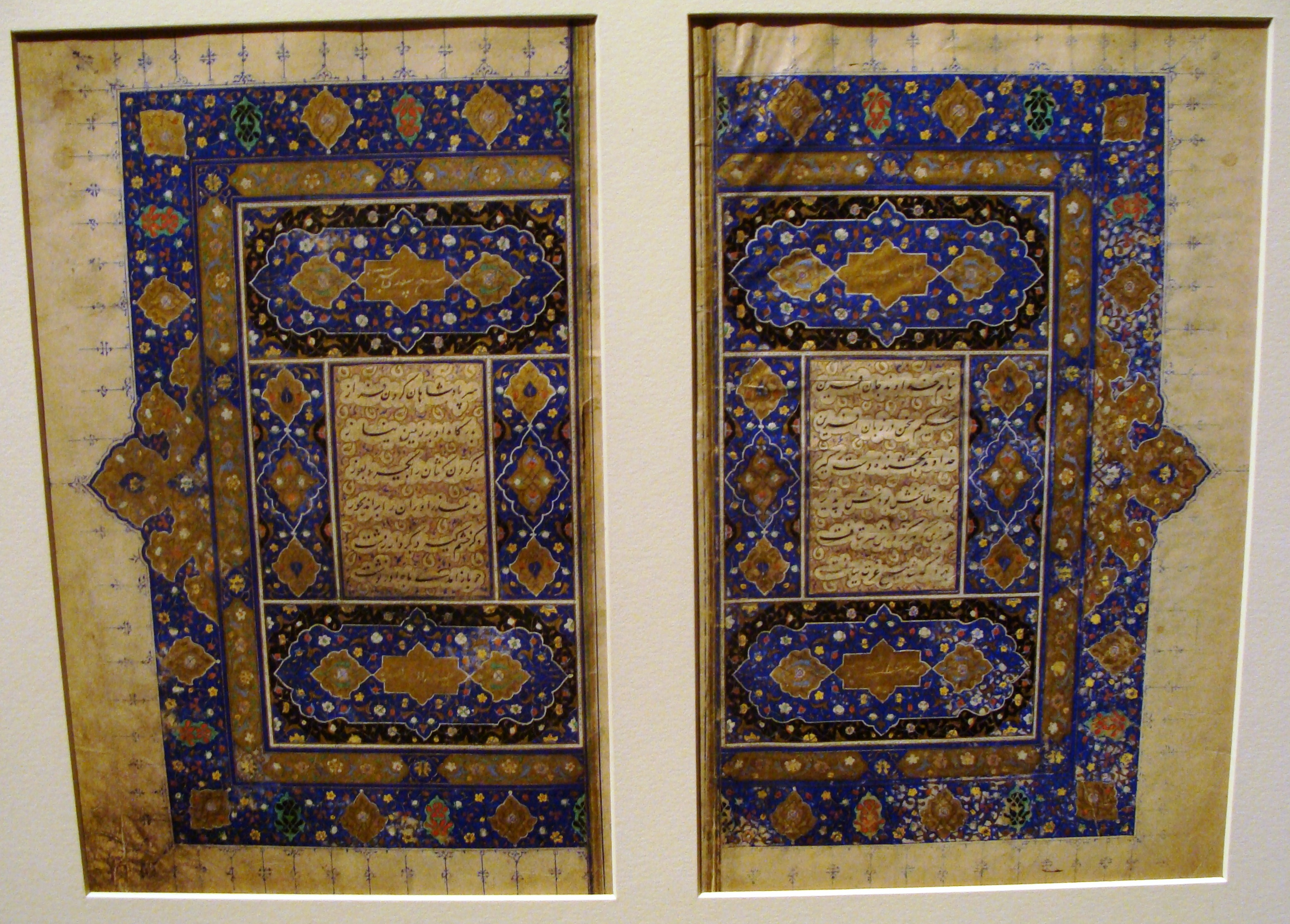 An illustrated Frontispiece: A Bifolio from a manuscript from Sa'di's Bustan. 1539 CE. Bukhara. Ink, opaque watercolor and gold on paper. Nelson-Atkins museum of Art. Kansas City, MO.